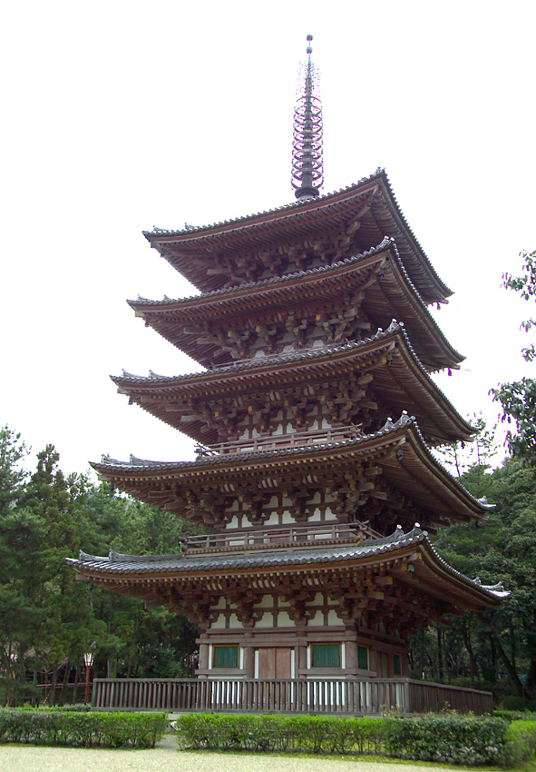 The pagoda at Daigoji in Kyoto, Japan.